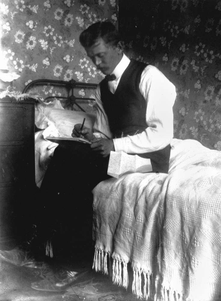 Intimate portrait of a man writing a letter, 1900-1910 Intimate portrait of a man, in evening dress, sitting on the edge of a bed writing a letter.